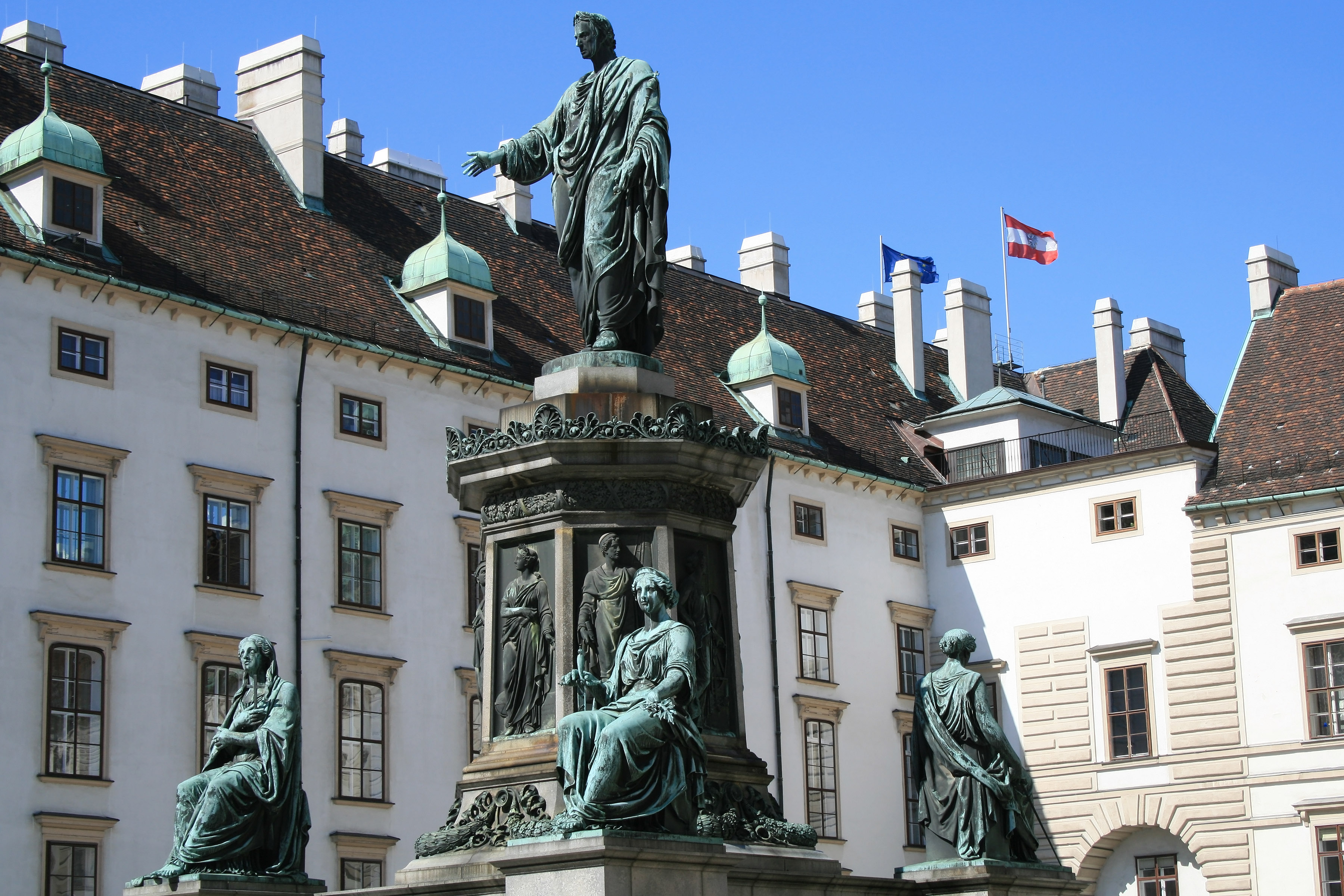 Statue of Francis II, Holy Roman Emperor/Franis I of Austria at Hofburg Palace in Vienna, Leopold Wing in the background.